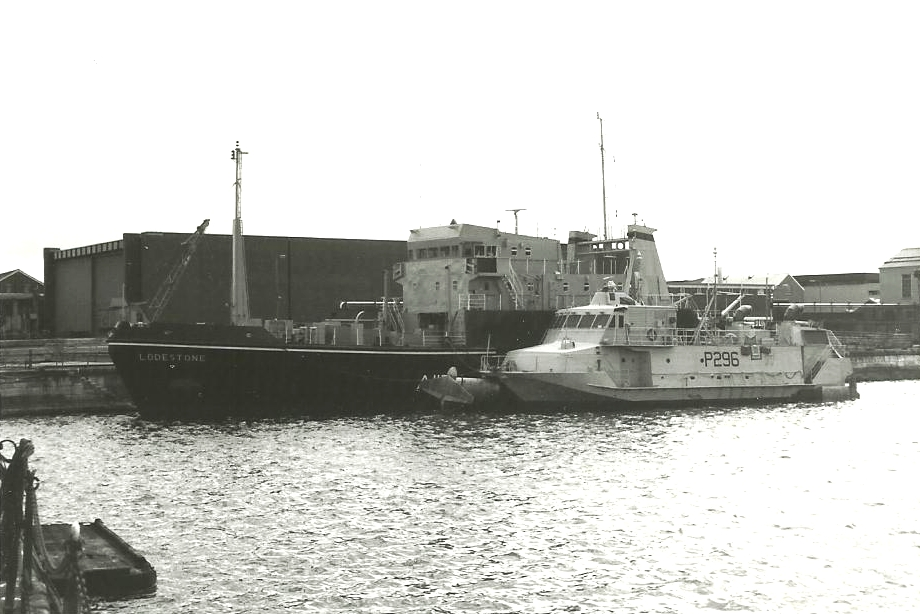 "Magnet" Class degaussing vessel "RMAS Lodestone", ? tons, launched ?, commissioned 19?. Pictured at the Portsmouth Navy Day, 08/82. Moored next to it is Fast Attack jetfoel "HMS Speedy". Scanned photograph taken with a Canon AE-1 Program.